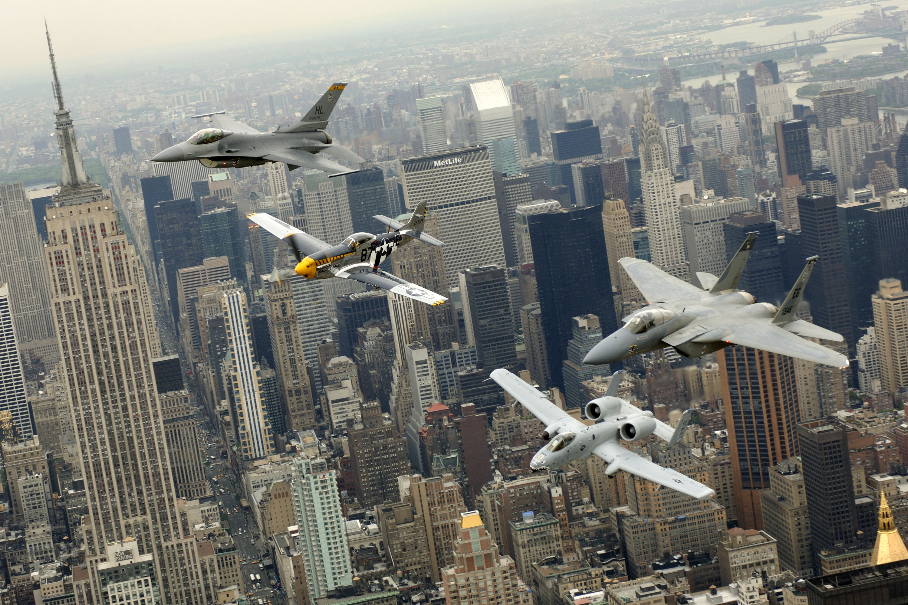 P-51 Mustang, F-16 Fighting Falcon, F-15 Eagle, A-10 Thunderbolt II